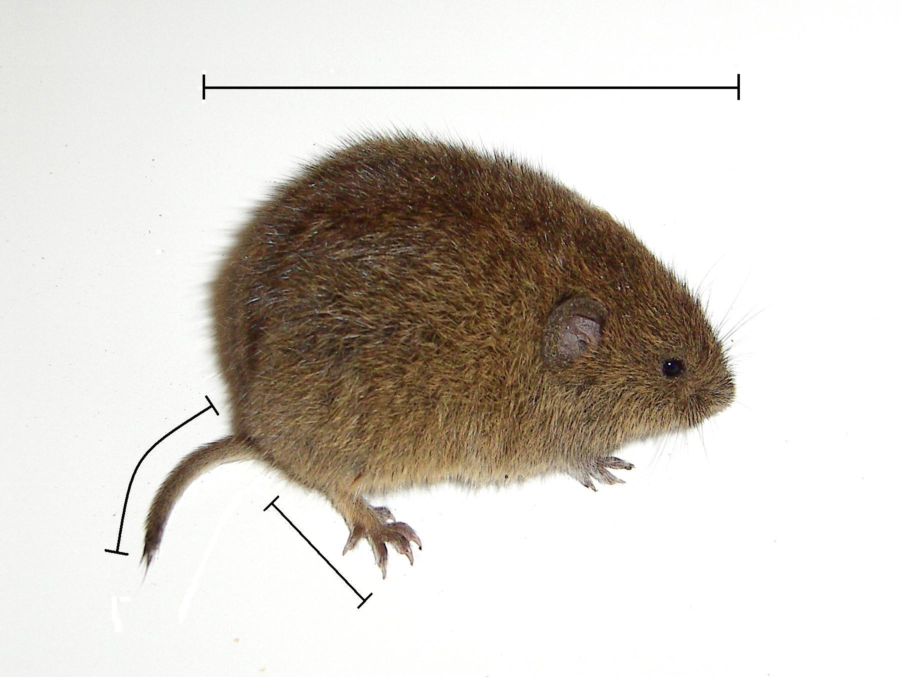 A Microtus arvalis with some important lengths indicated. Picture taken in Interlaken, Switzerland.